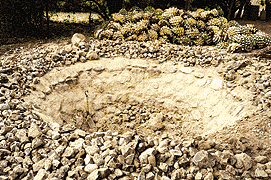 Maguey Horno (oven)